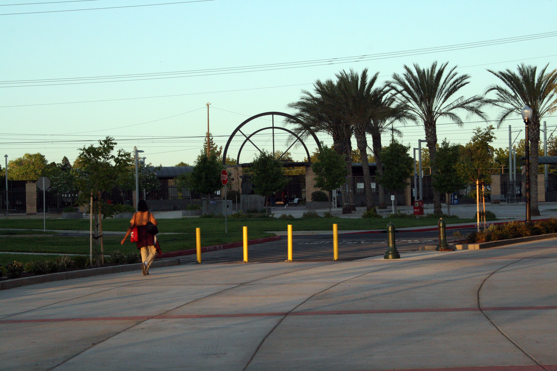 scc light rail station